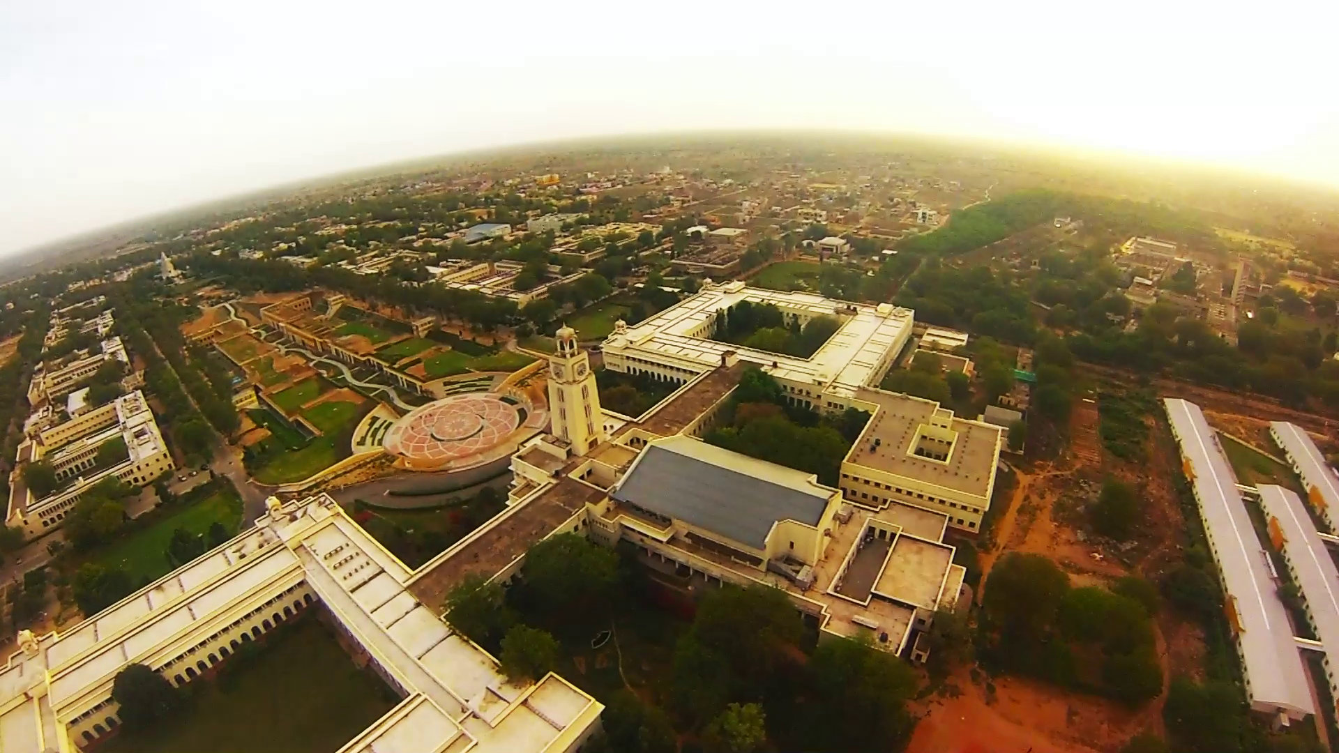 Aerial View BITS Pilani, 2014 taken by RC club